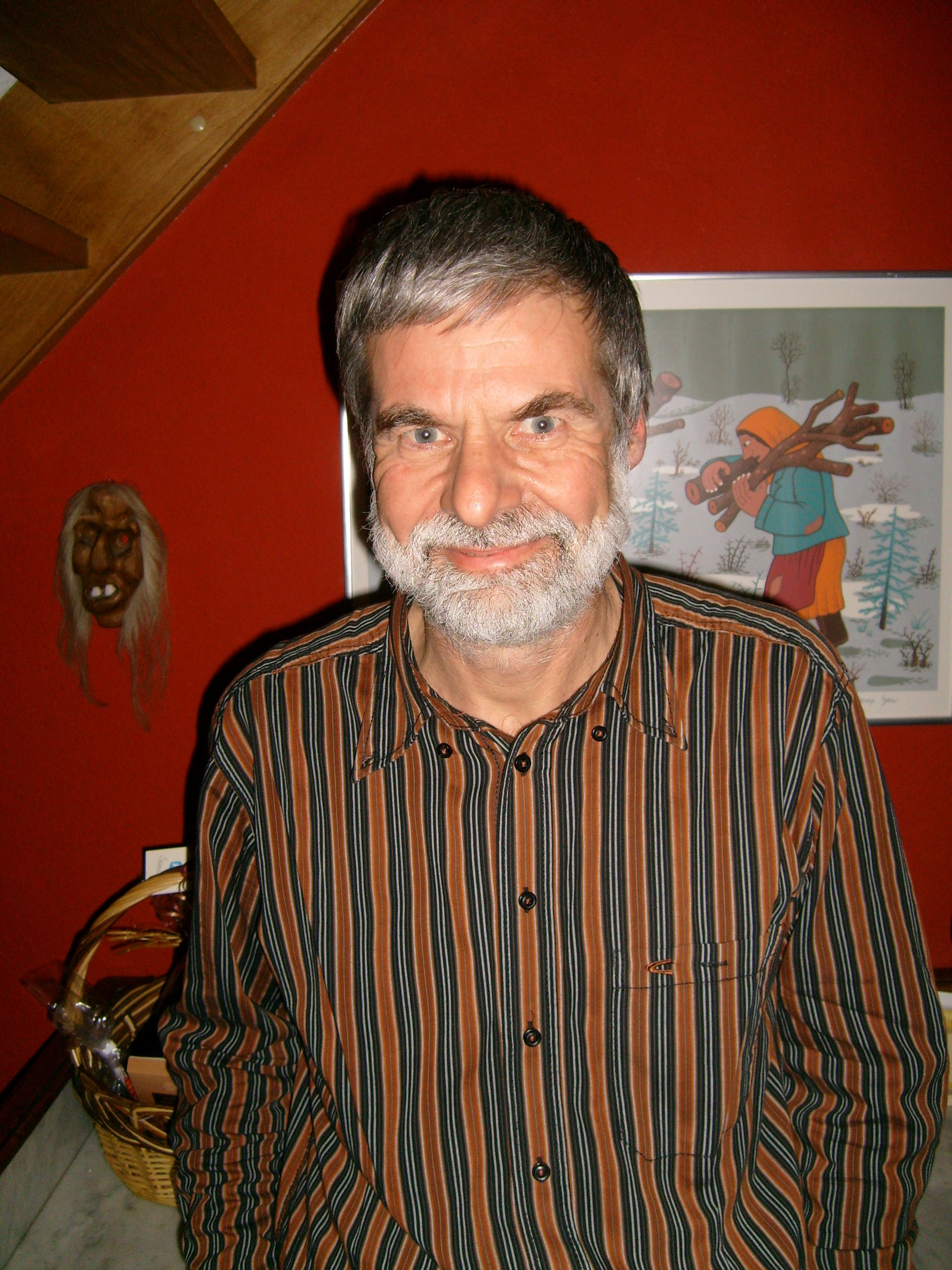 Gilles Hoffmann, Luxembourgian author.